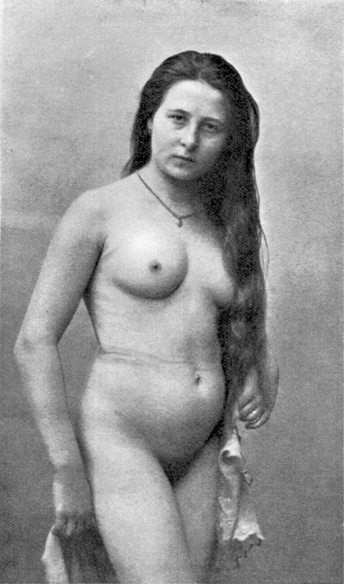 Girl with wrinkles from the use of corset.